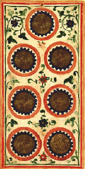 Sette di denari card from the Pierpont-Morgan tarot collection, shot on location at the library